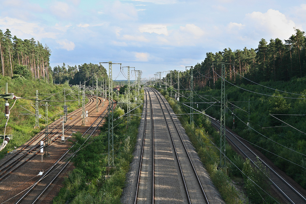 Reichswald junction on the Nuremberg-Ingolstadt high-speed railway line. The pair of tracks in the middle are headed for Ingolstadt, the single tracks next to them to Regensburg. The two tracks on the left belong the Nuremberg S-Bahn system (Nuremberg-Feucht-Altdorf branch)